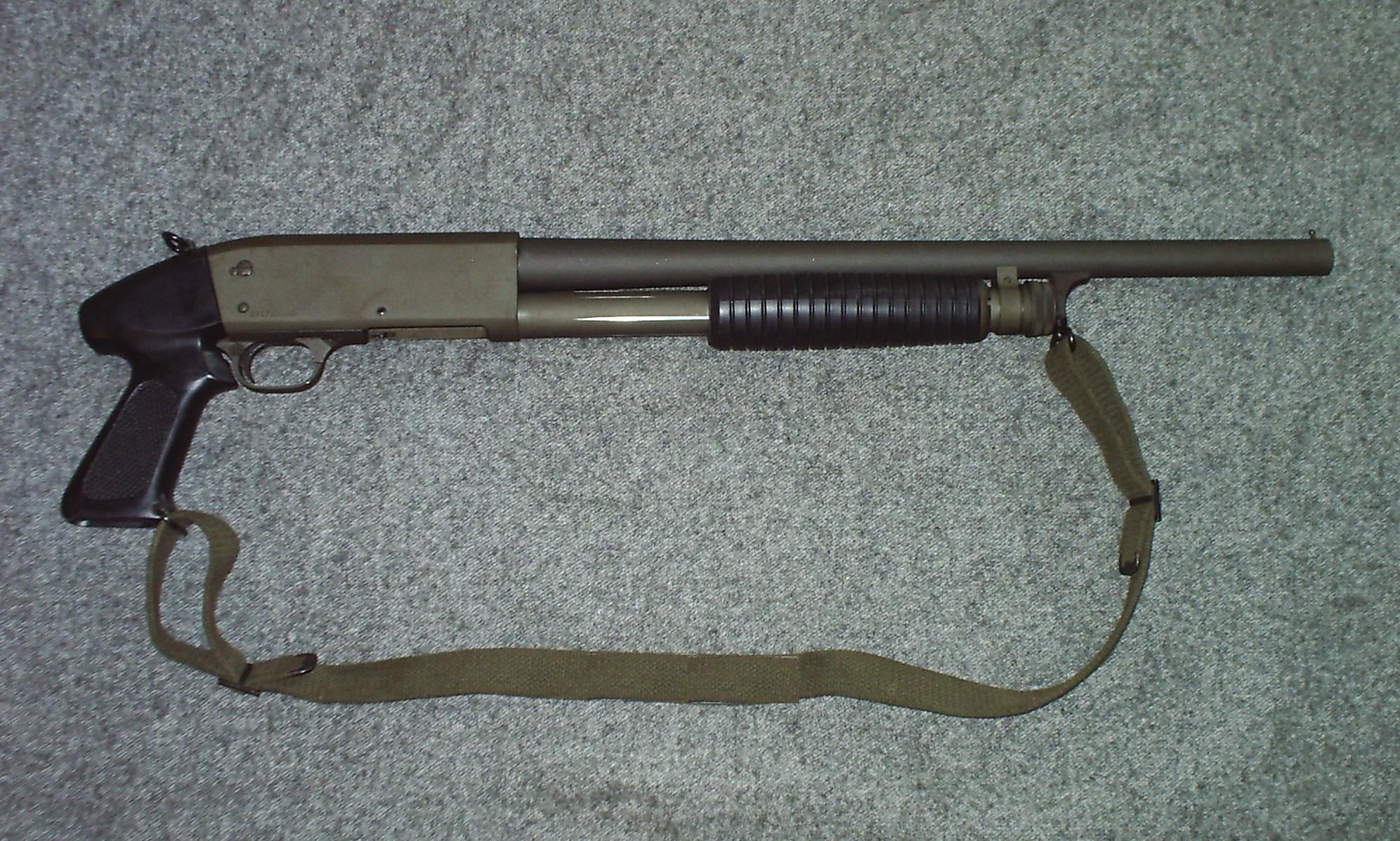 Ithaca Model 37 Parkerized pistol gripped Riot Shotgun